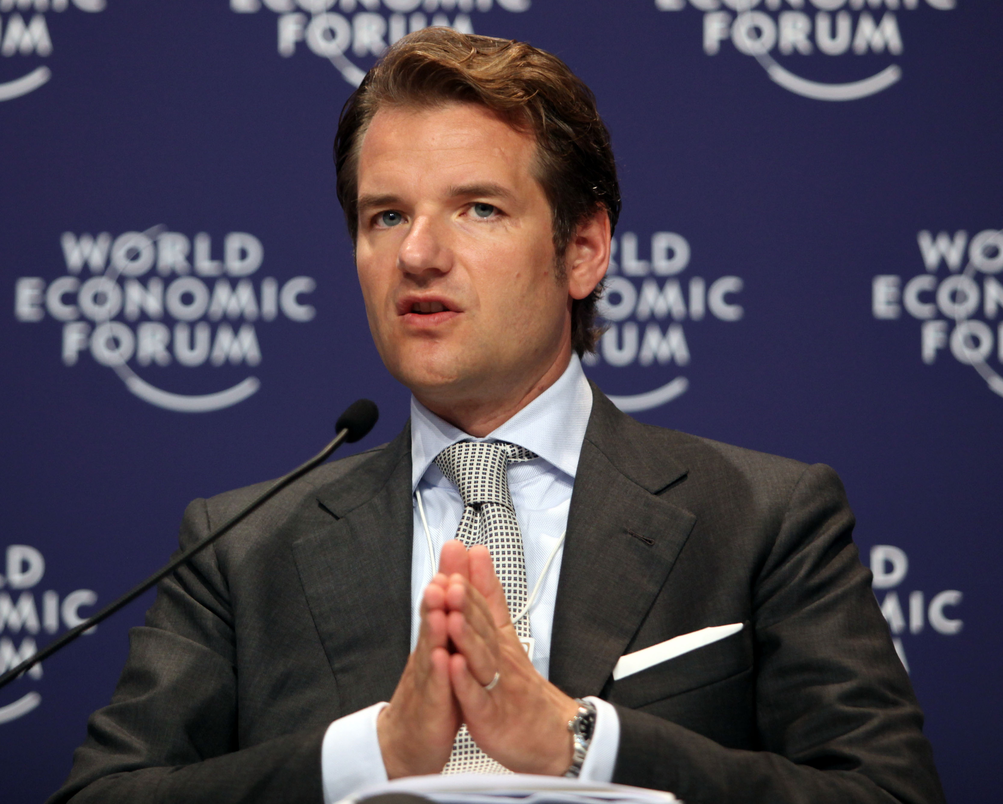 DALIAN/CHINA, 10SEPT09 - Peer M. Schatz, Chief Executive Officer, Qiagen, speaks during the Global Redesign Series -- Managing Global Risks session at The World Economic Forum Annual Meeting of the New Champions in Dalian, China 10-12 September 2009. Copyright World Economic Forum ( /Natalie Behring)